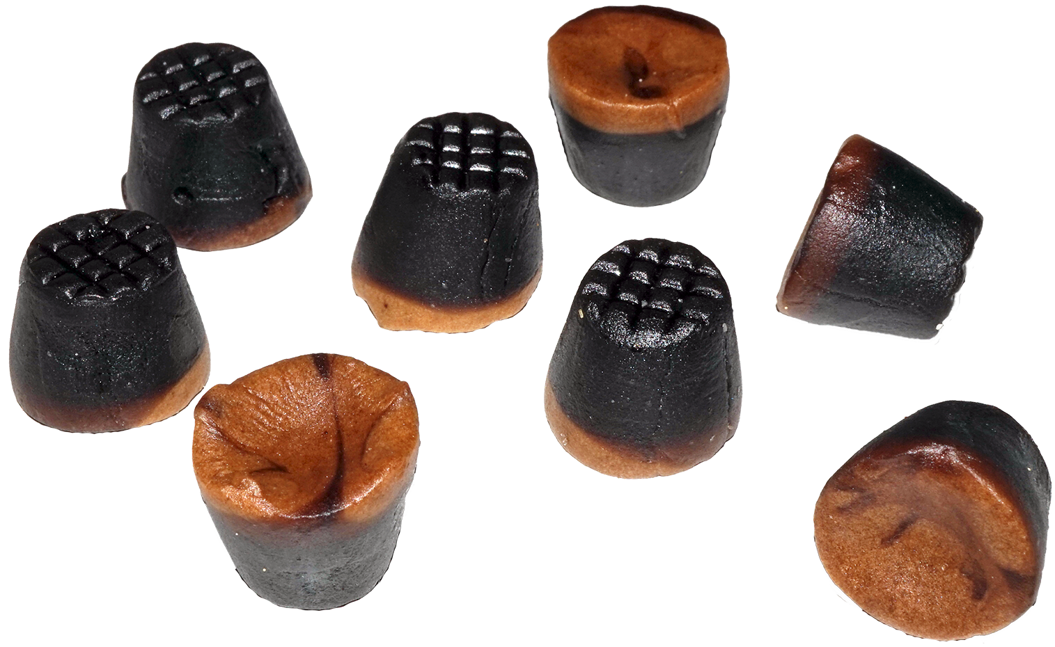 Sugar free salty liquorice by Sulá. Sweetened with maltitol syrup, erythritol and steviol glycoside.This photograph was taken with a Sony ILCE-5000